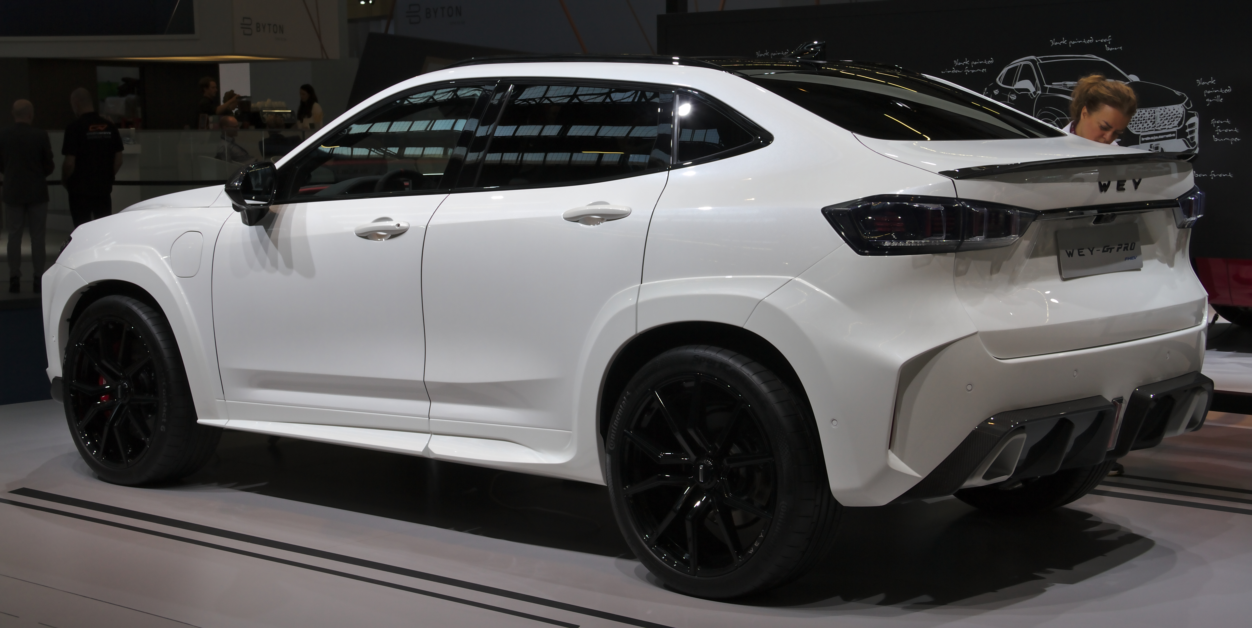 Wey_VV7_GT_Pro_PHEV at IAA 2019